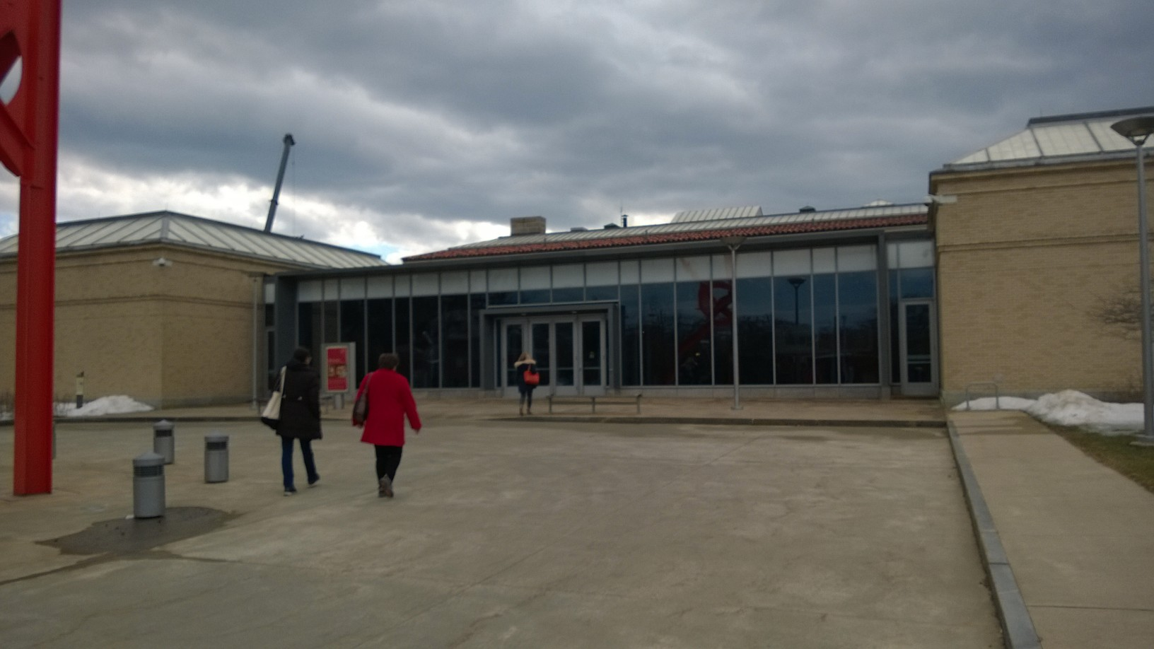 Front entrance to the Currier Museum of Art